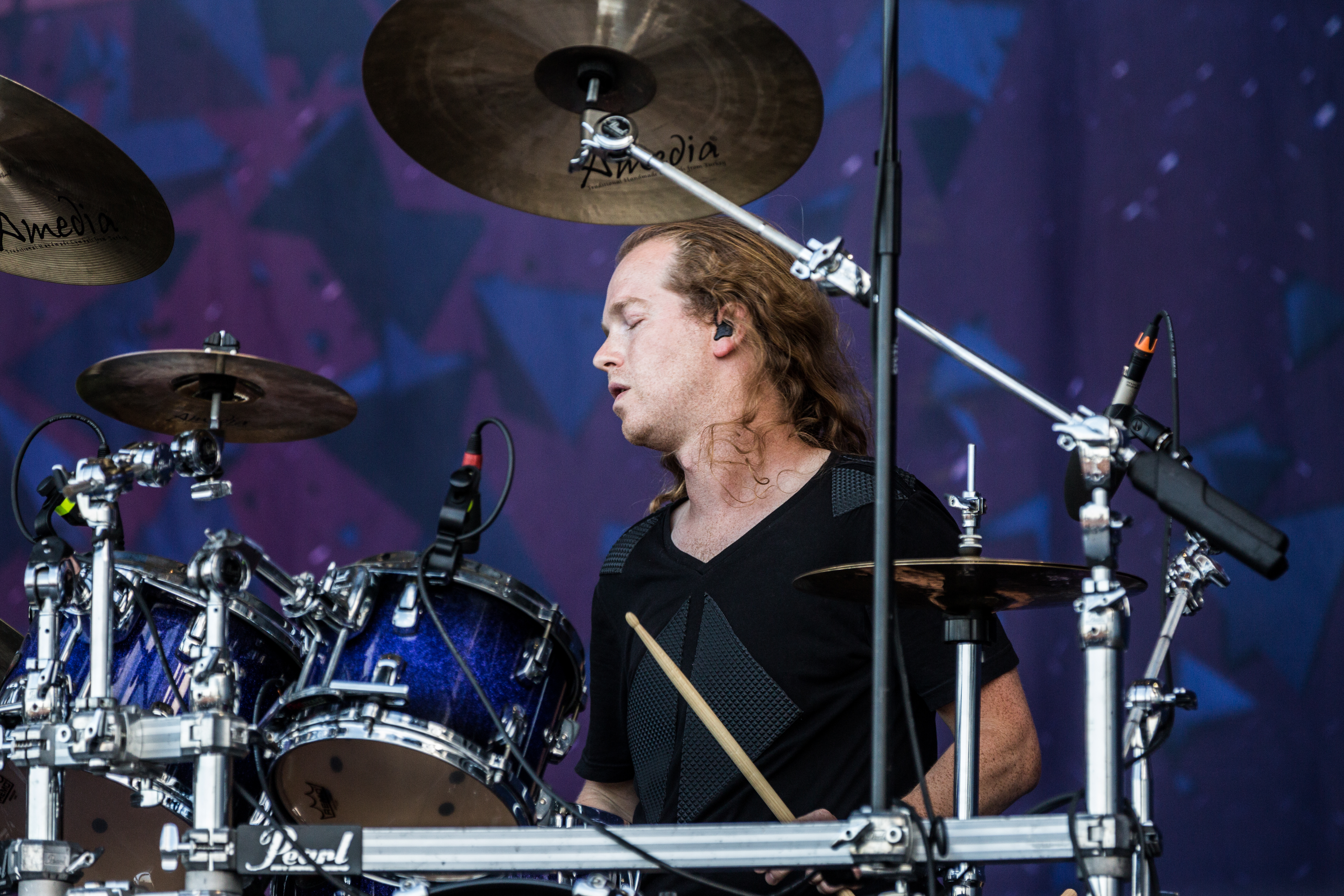 The Dutch symphonic metal band Epica at the Summer Breeze Open Air 2017 in Dinkelsbühl/Germany.